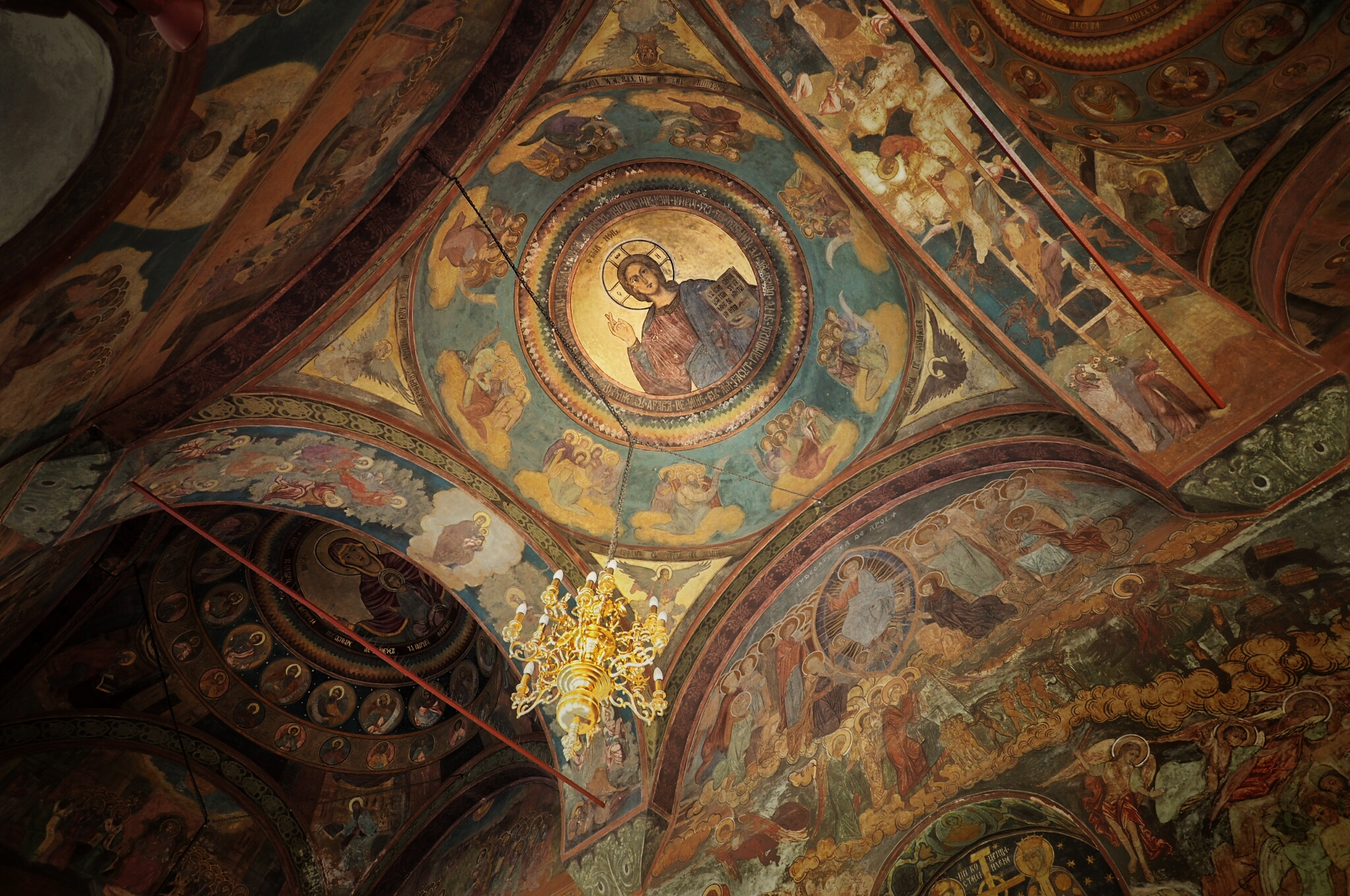 Bucharest, Romania Find out more about Bucharest: DiscoverBucharest